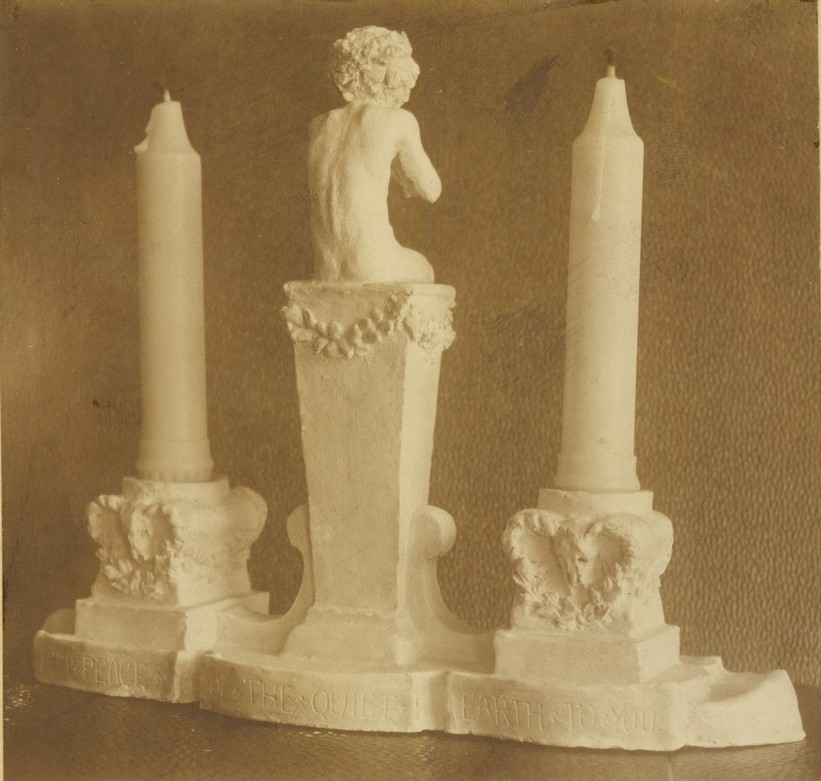 Identifier: A1621-00695 Date: 1907-05 Decade: 1900-1909 Creator: Risque, Caroline, 1883-1952 Types: Serial , Page Subjects: Women , Art , Artists , Sculpture Rights: NO COPYRIGHT - UNITED STATES Permalink: Description: Terra-cotta candlestick scuplture done for L.R. Ernst by Caroline Risque, photographs by Williamina Parrish